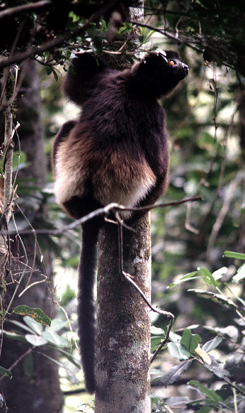 Milne-Edwards' Sifaka (Propithecus diadema edwardsi)